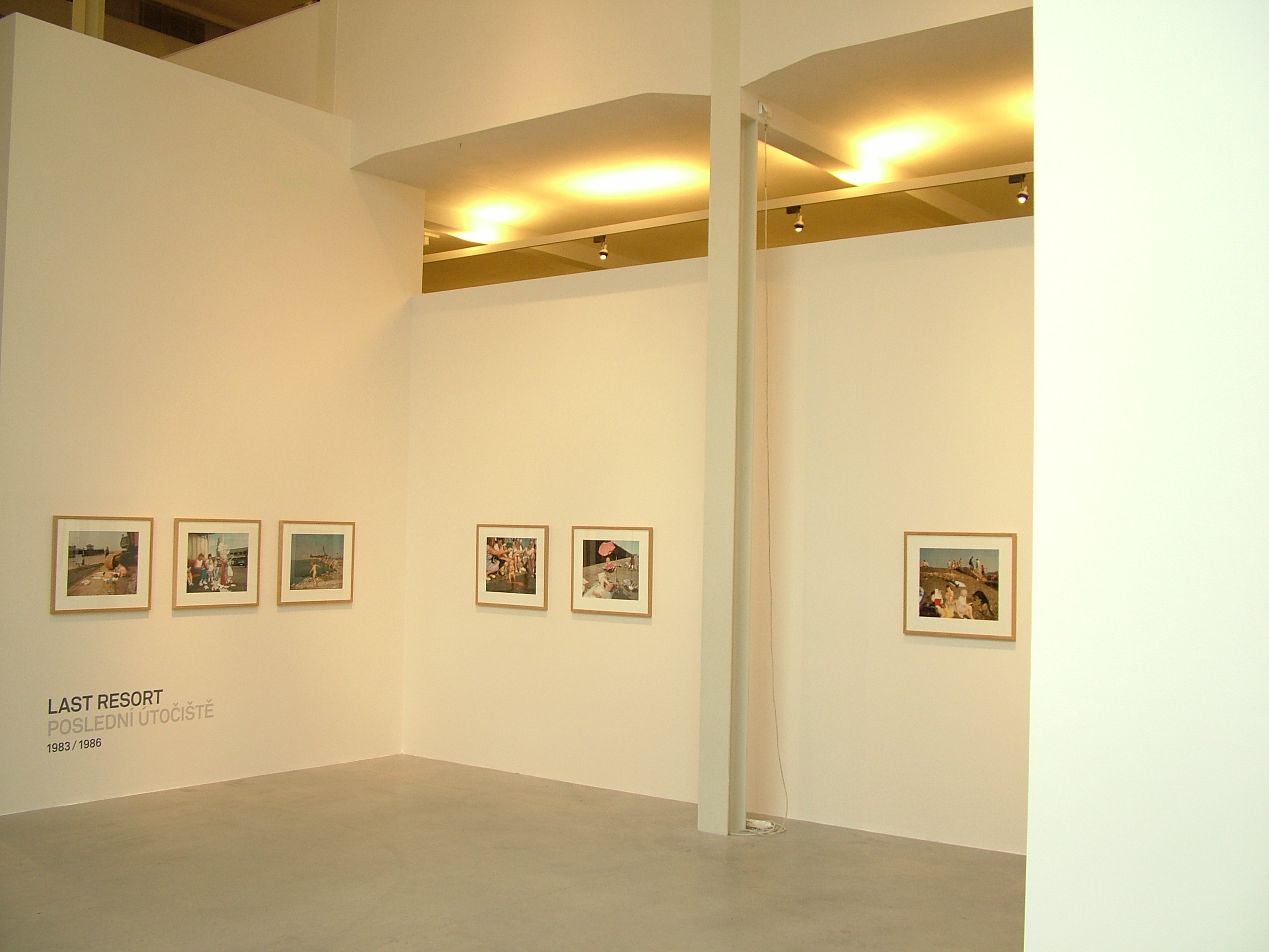 Výstava Martina Parra, Praha, MARTIN PARR: Assorted Cocktail, 10. 2 - 16. 5 2011